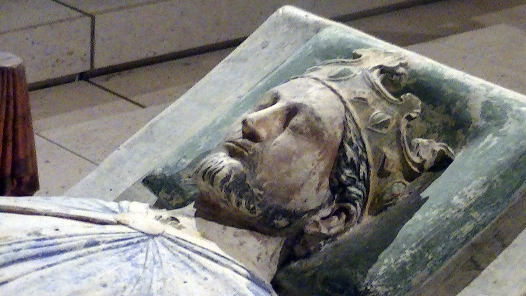 Effigy of Richard I of England in the church of Fontevraud Abbey